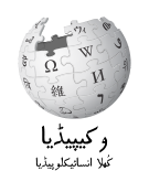 A logo for Wikipedia in the Punjabi language. Uses the Pak Type Tehreer font.